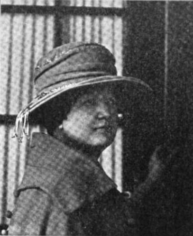 Flora E. Lowry, from a 1923 publication